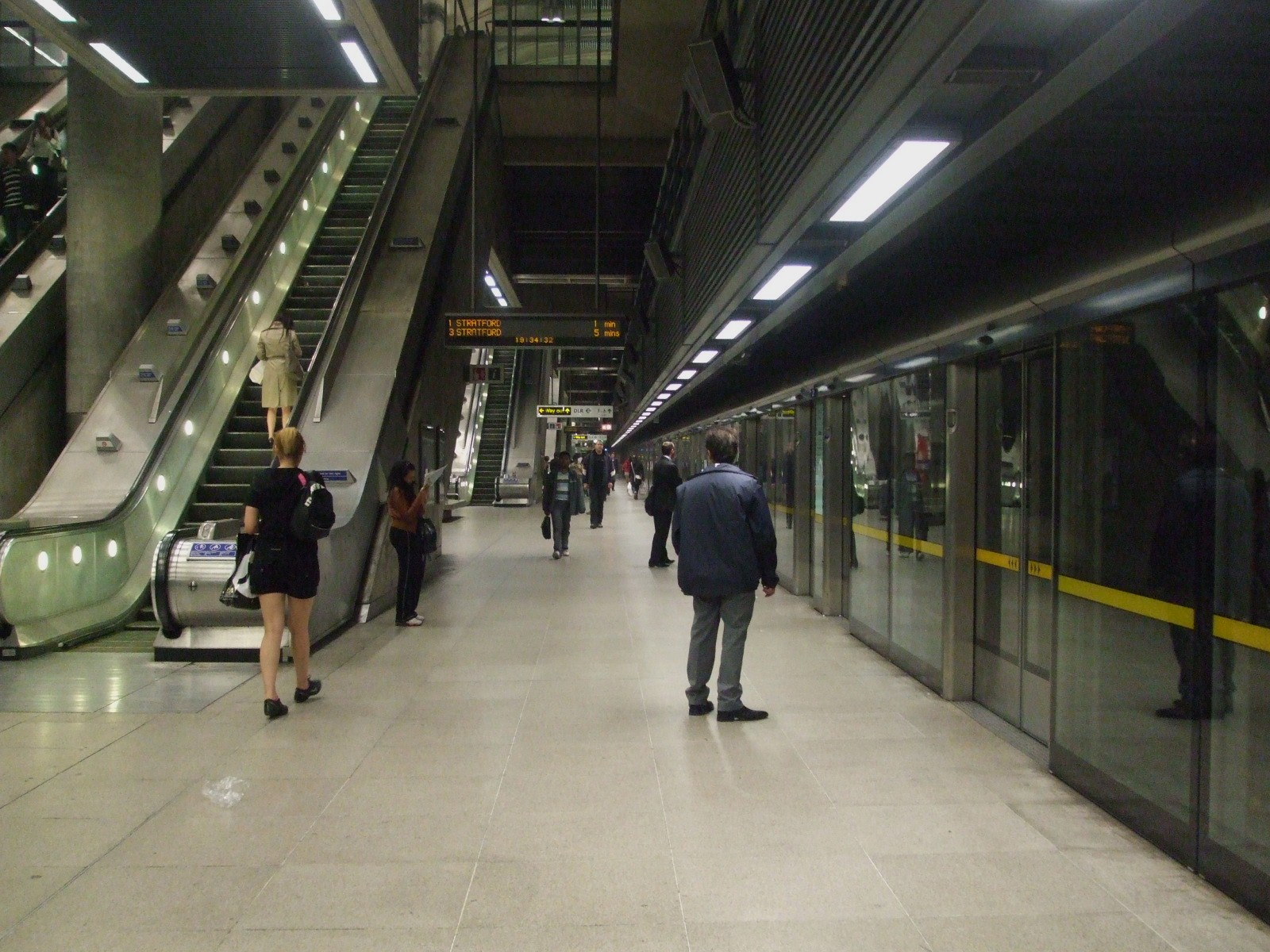 Canary Wharf tube station eastbound platform looking west. Note platform-edge doors.